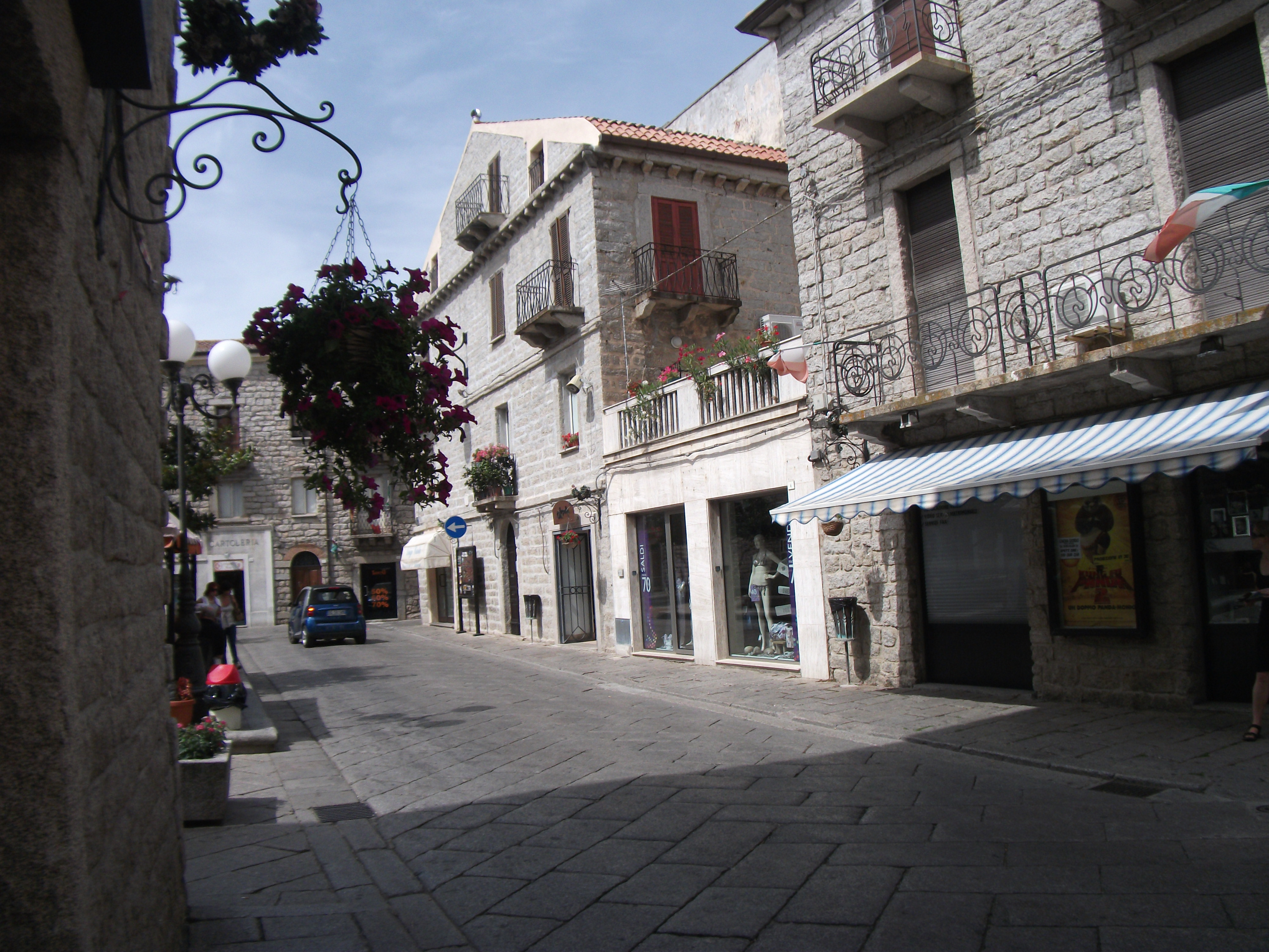 Tempio Pausania, Italy Square